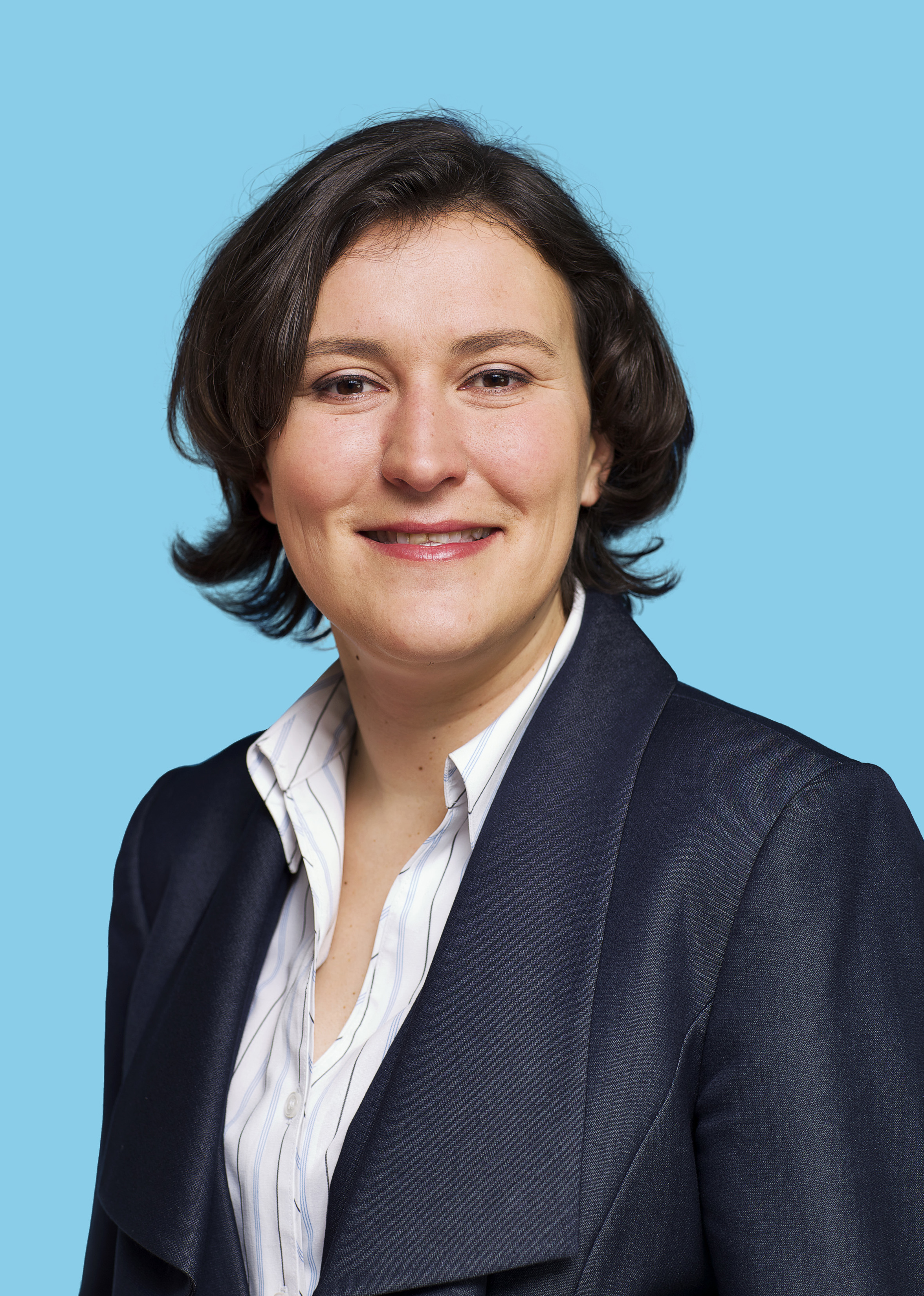 Kandidaat Partij van de Arbeid voor het Europees Parlement. Op pvda.nl de volledige lijst: bit.ly/1b9r60a